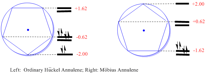 This is a replacement drawing for one in my article Moebius-Hueckel concept. It gives the Circle Mnemonics which give the Moebius and Hueckel MO's.